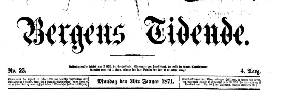 The top of the front page of the norwegian newspaper Bergens Tidende from the 30th of january 1871.